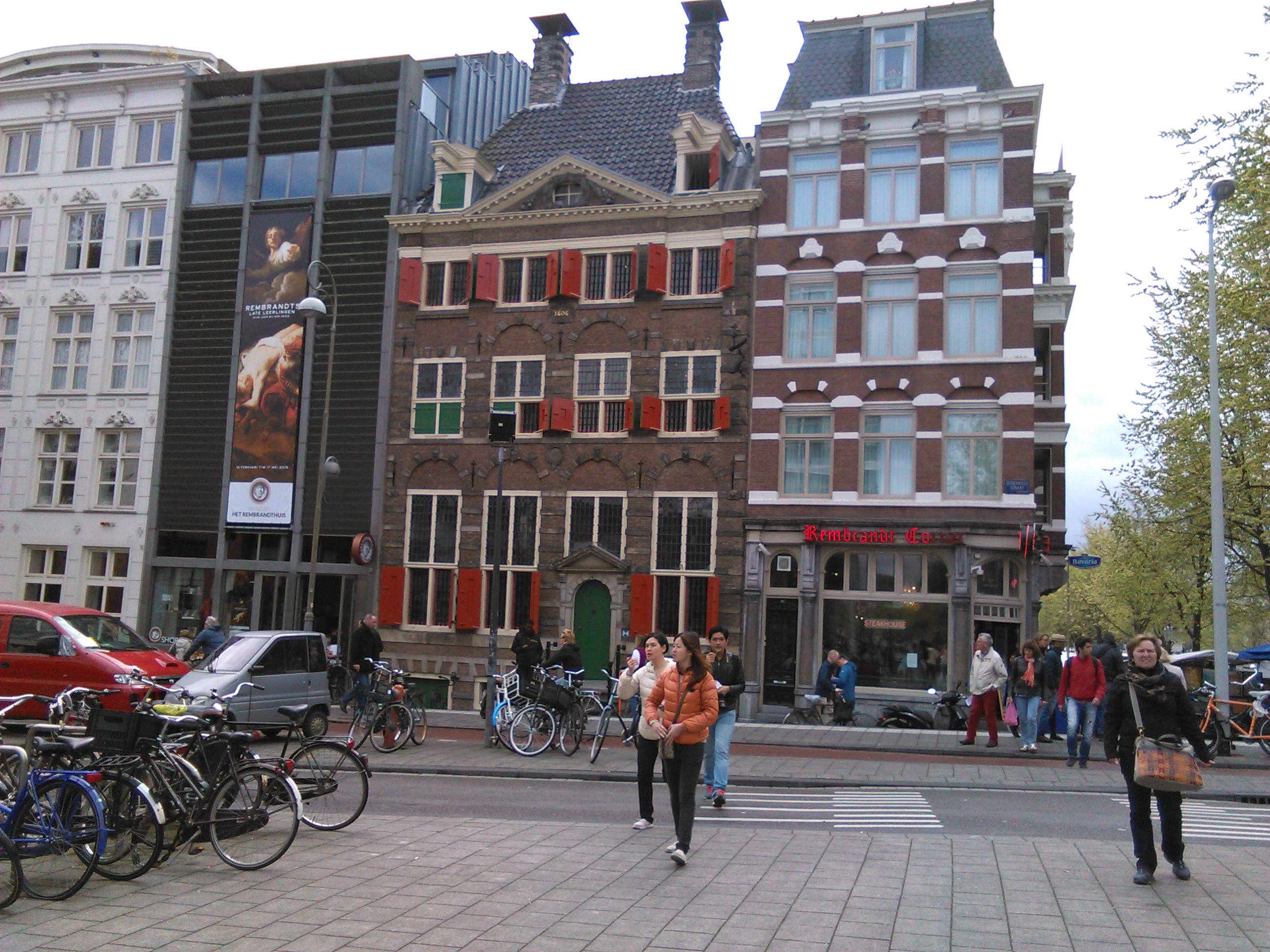 The Rembrandt House Museum (Dutch: Museum Het Rembrandthuis) is a historic house and art museum in Amsterdam in the Netherlands. Painter Rembrandt lived and worked in the house between 1639 and 1656. The 17th-century interior has been reconstructed. The collection contains Rembrandt's etchings and paintings of his contemporaries. At the right Jodenbreestraat 2, monument in Amsterdam together with Zwanenburgwal 3-9